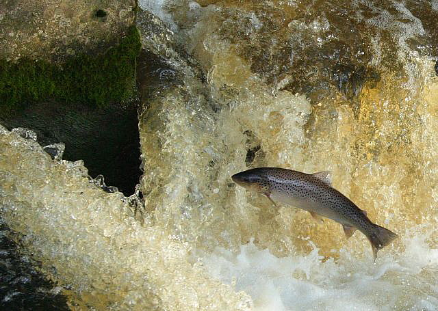 Leaping Sea Trout A sea trout leaping at the fish ladder at Westwater Weir.